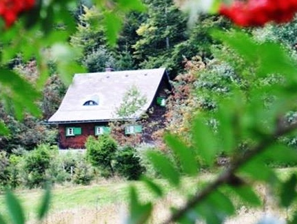 Lodge of Corps Hubertia Freiburg in the mountains of the Black Forest